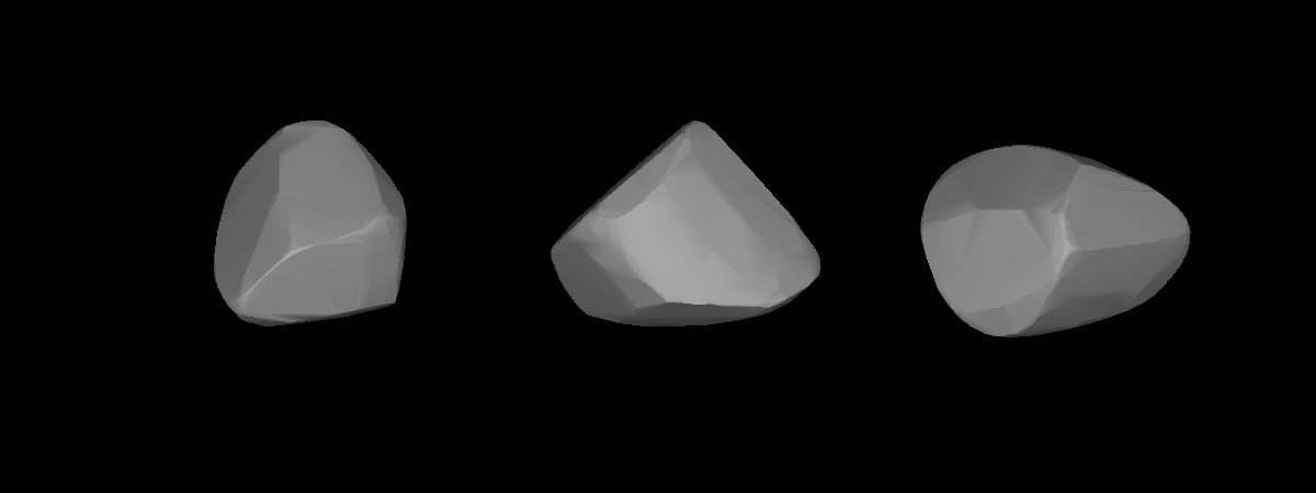 A three-dimensional model of 732 Tjilaki that was computed using light curve inversion techniques.